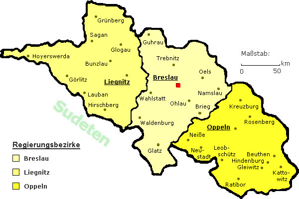 Administrative regions of the Prussian province Silesia, Germany in 1914